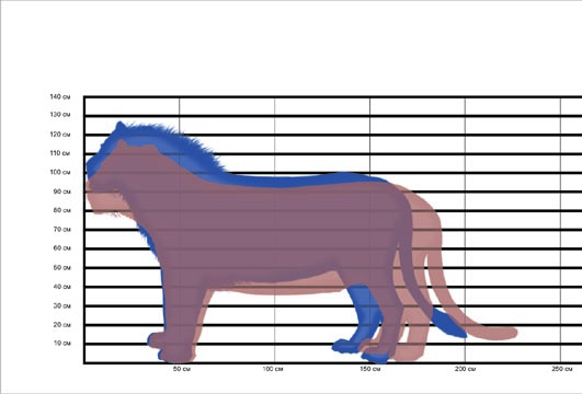 lion&tiger size